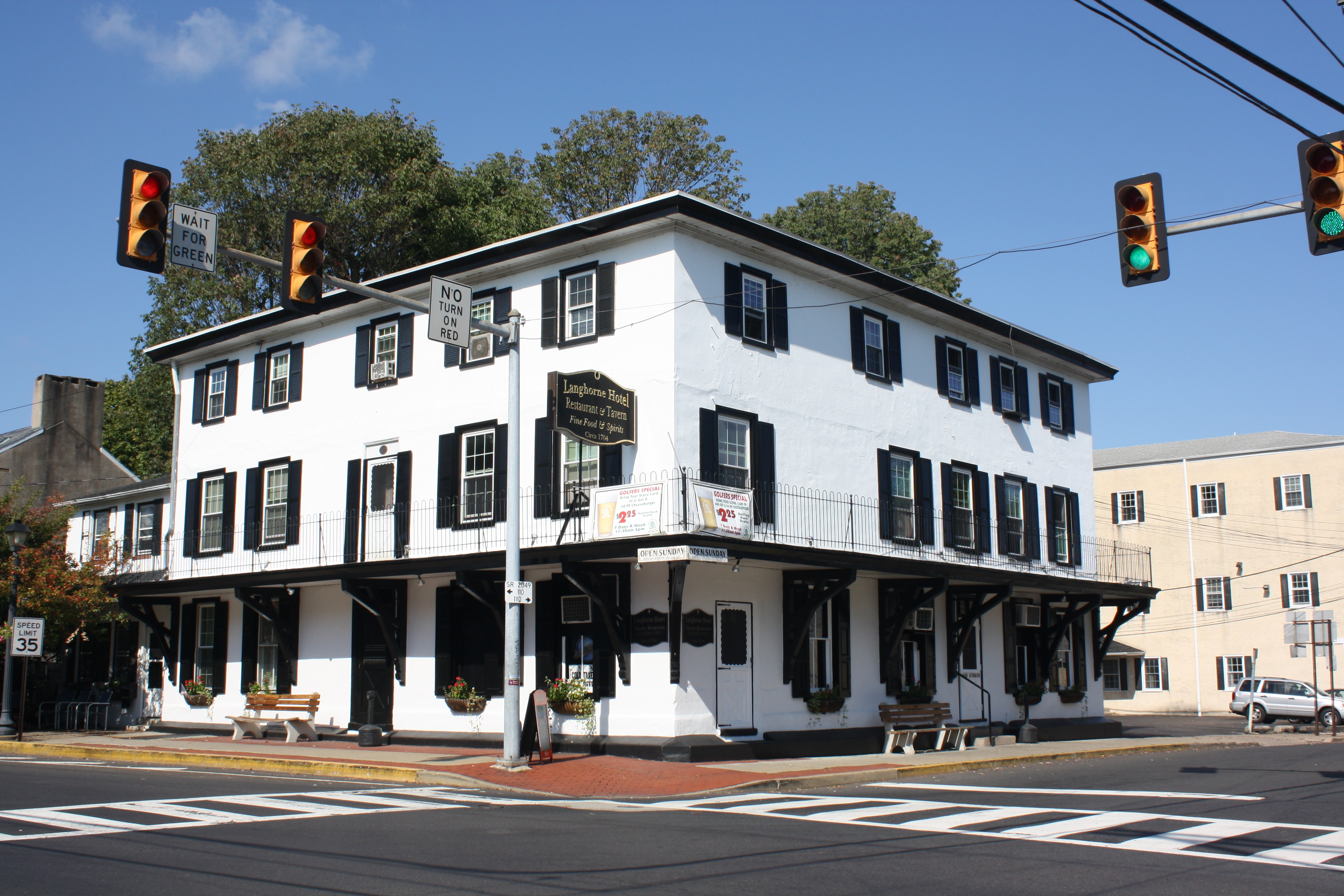 Langhorne Historic District